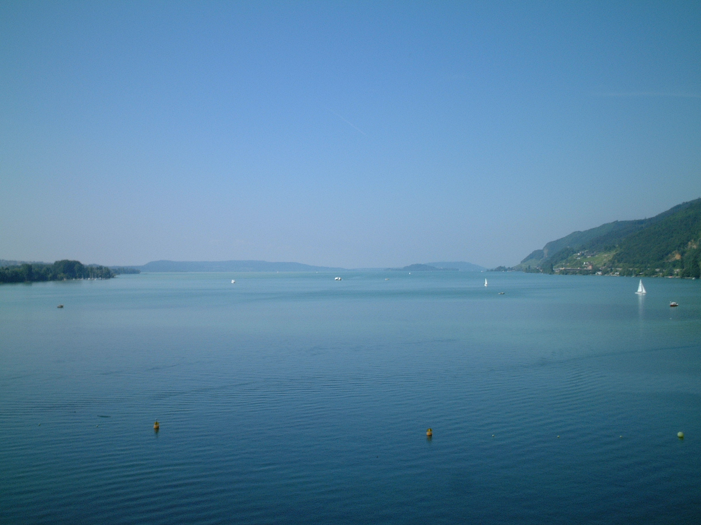 Expo.02 in Neuenburg, Yverdon, Biel and Murten (exact location see file name)